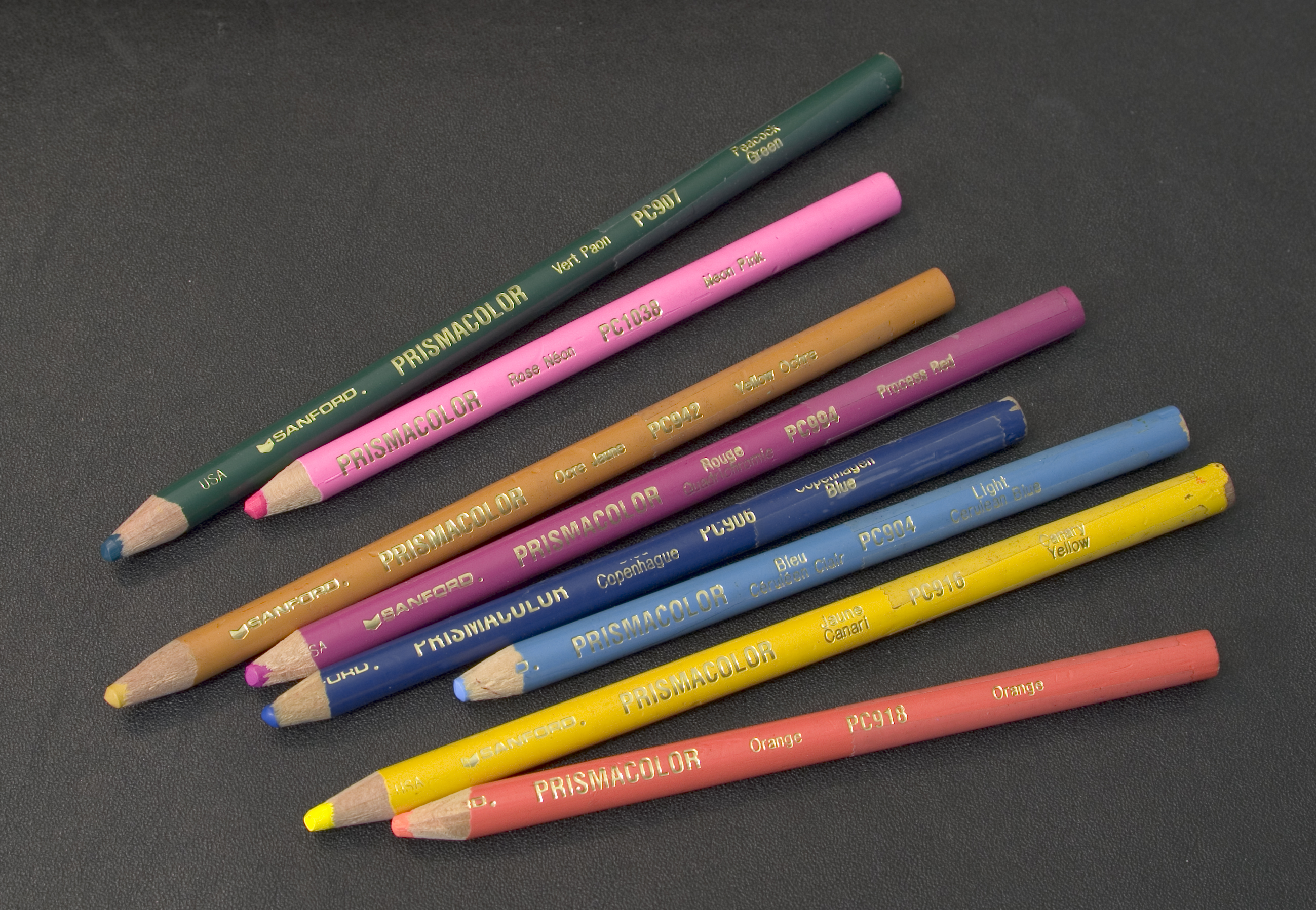 Colored pencils manufactured by Sanford. These pencils display the modern imprint used by Sanford for the Prismacolor line. The Sanford facility began manufacturing the Prismacolor line sometime after 1995 when their parent company (Newell) purchased Berol.